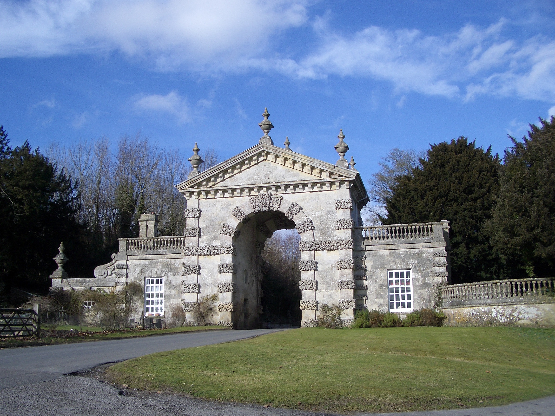 Fonthill - North gateway to estate